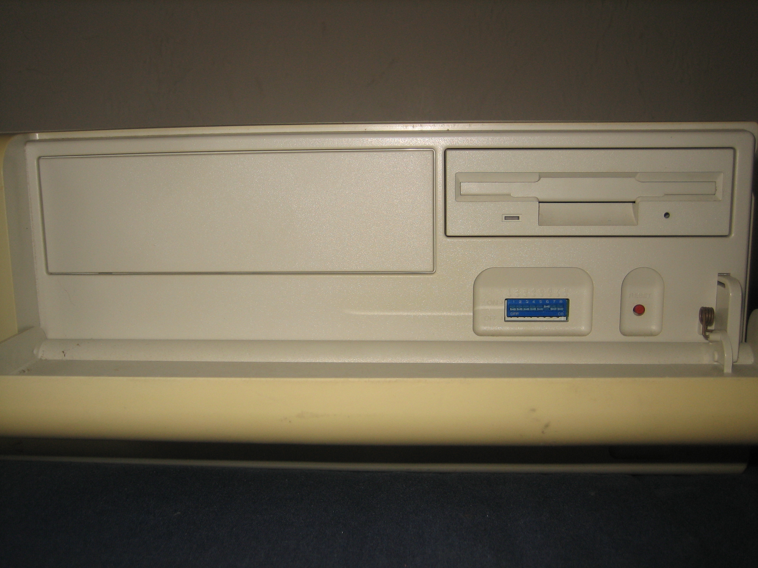 Detailed view of the front of a Sony NWS-3710 RISC workstation, with its front cover tilted down exposing an unused 5 1/4" drive bay (for a CDROM perhaps?), floppy drive, configuration dip switch, and reset button.